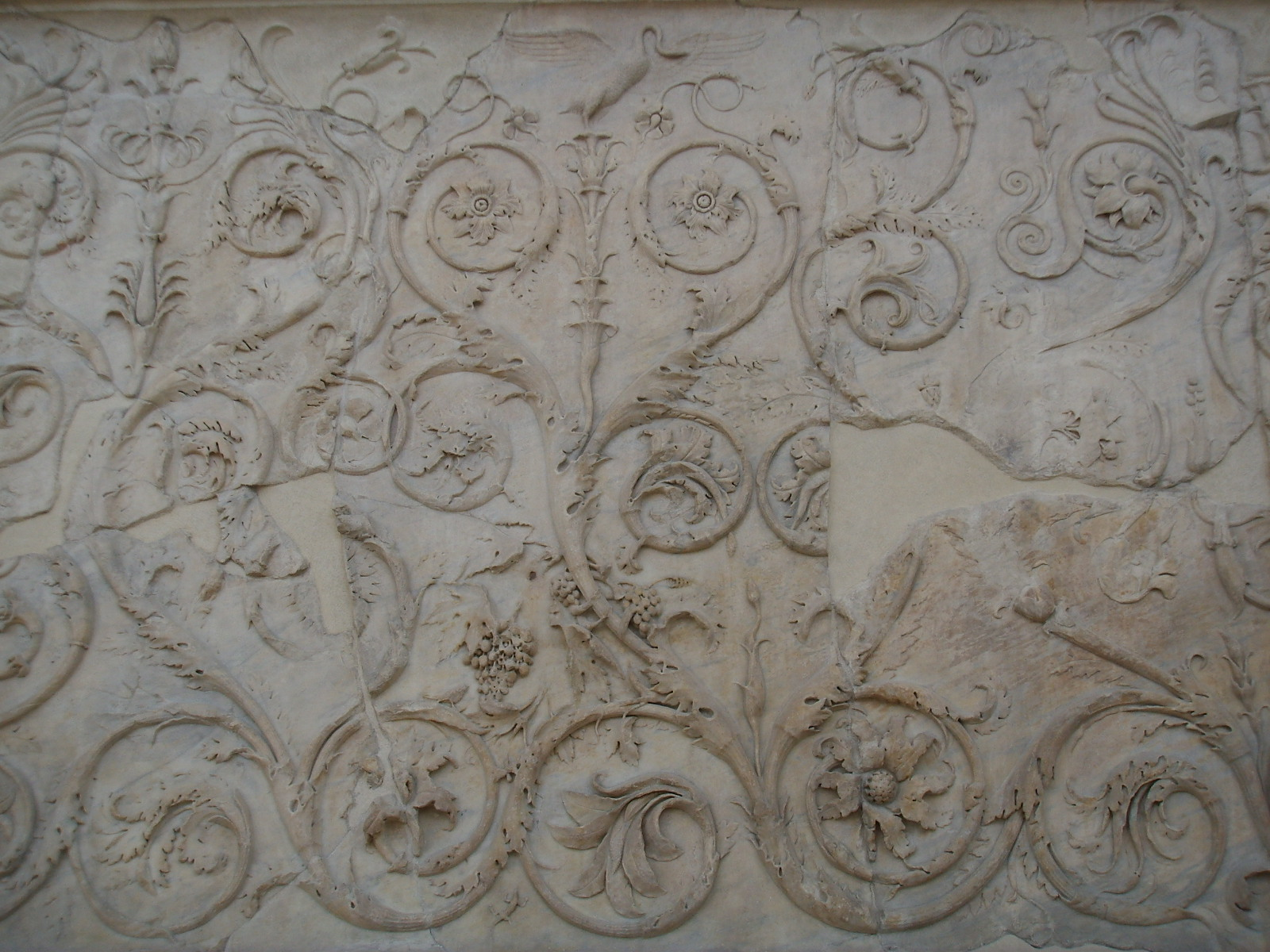 Ara Pacis, west side decoration in Rome, Italy